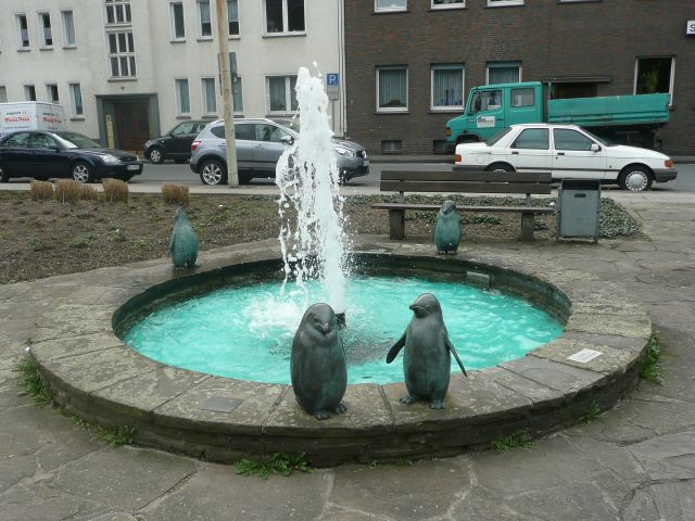 Penguin fountain created in 1955 by Hans Peter Feddersen at Hilden, Germany